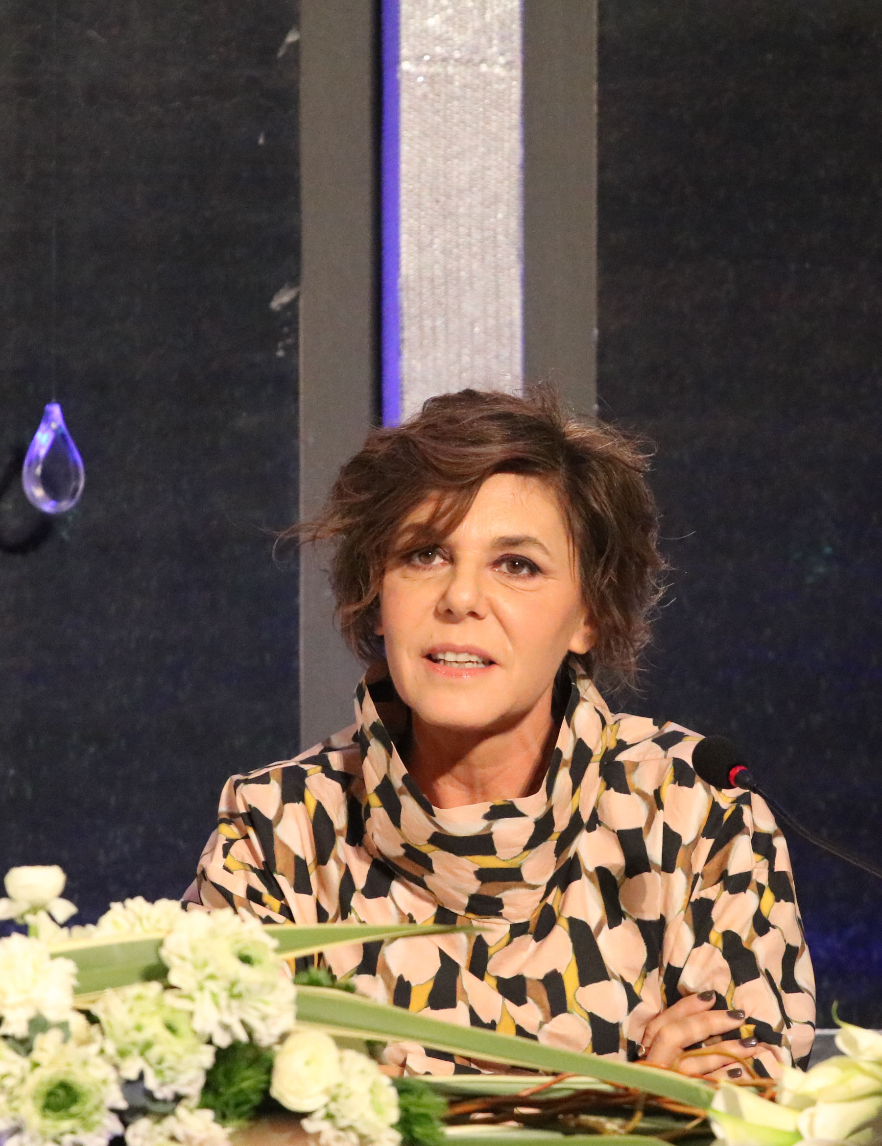 rancesca Montinaro-Sanremo -2019